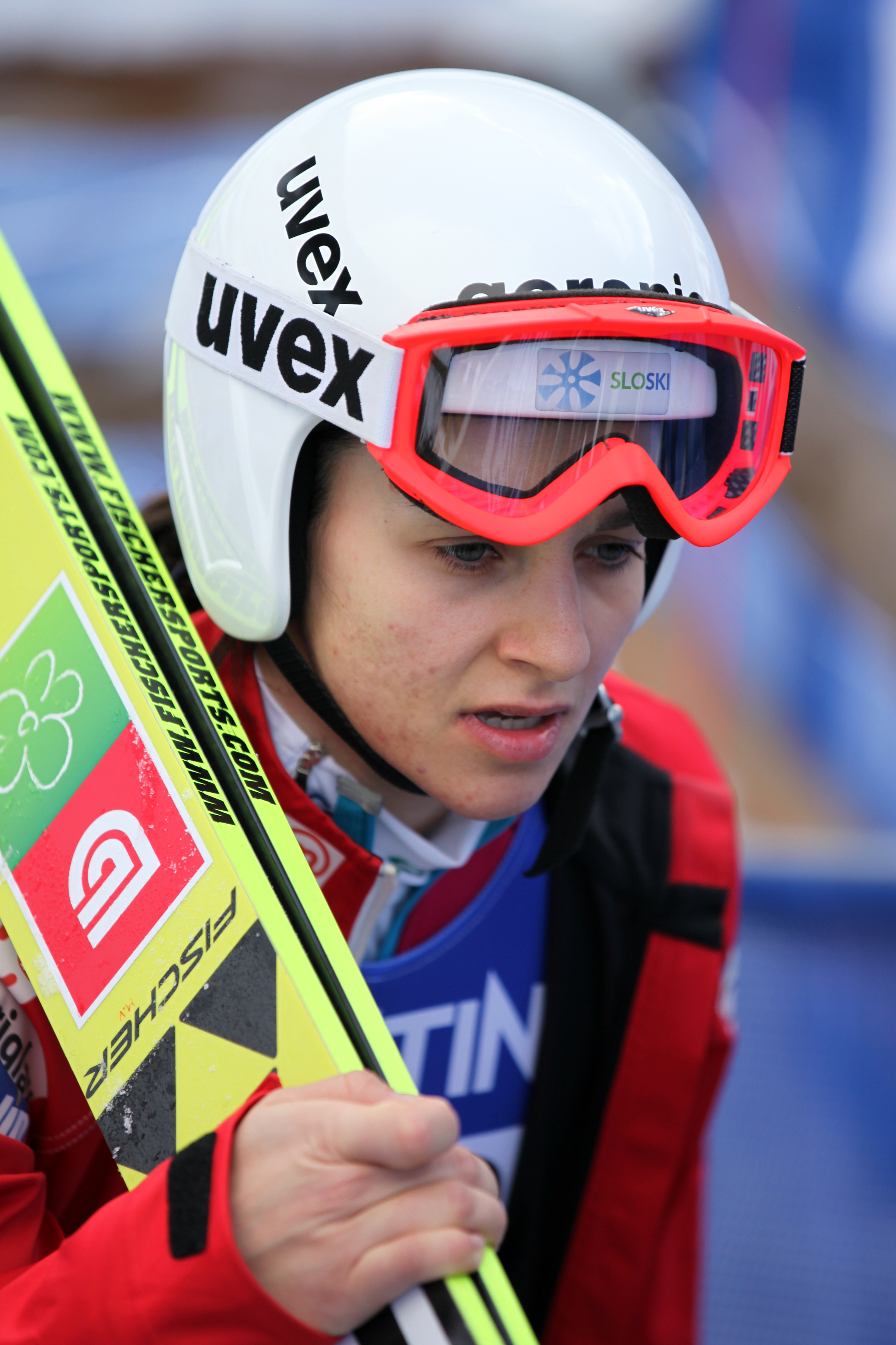 Maja VTIC at the ski jumping World Championships in Predazzo